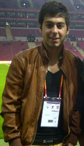 Okan Derici before Sivas Cup match